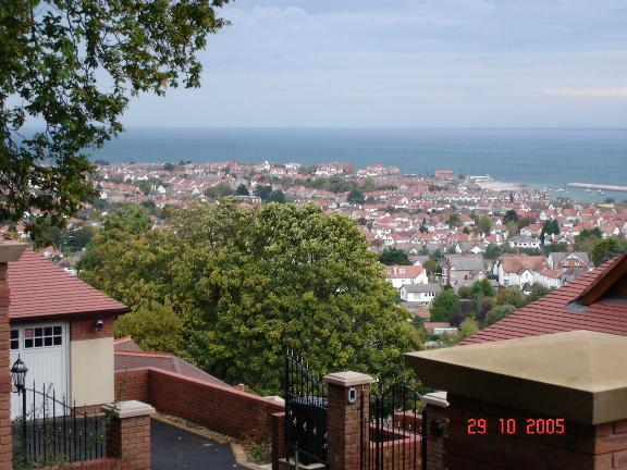 View over Colwyn Bay Taken from The Old Highway above Colwyn Bay looking over the rooftops of the town out to the coast.